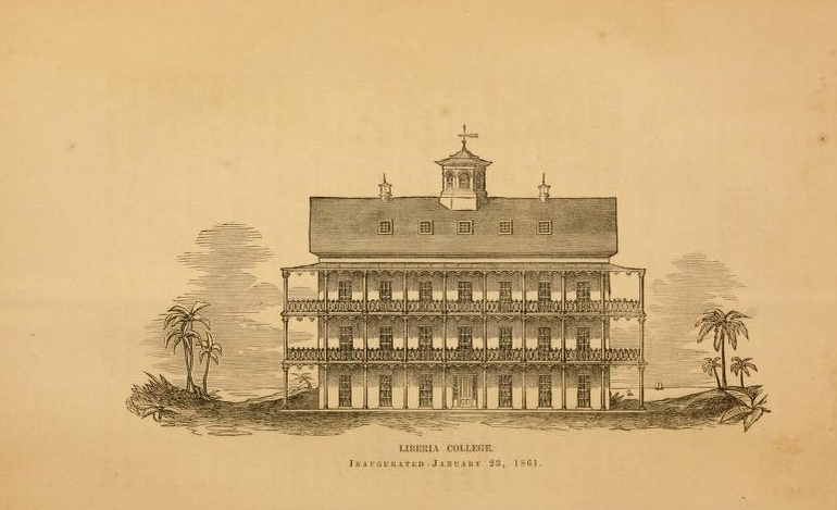 Liberia College at Monrovia (by Richer Russell of Boston - Engraver)